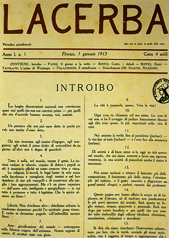 Lacerba, the first issue, Florence, January 1, 1913